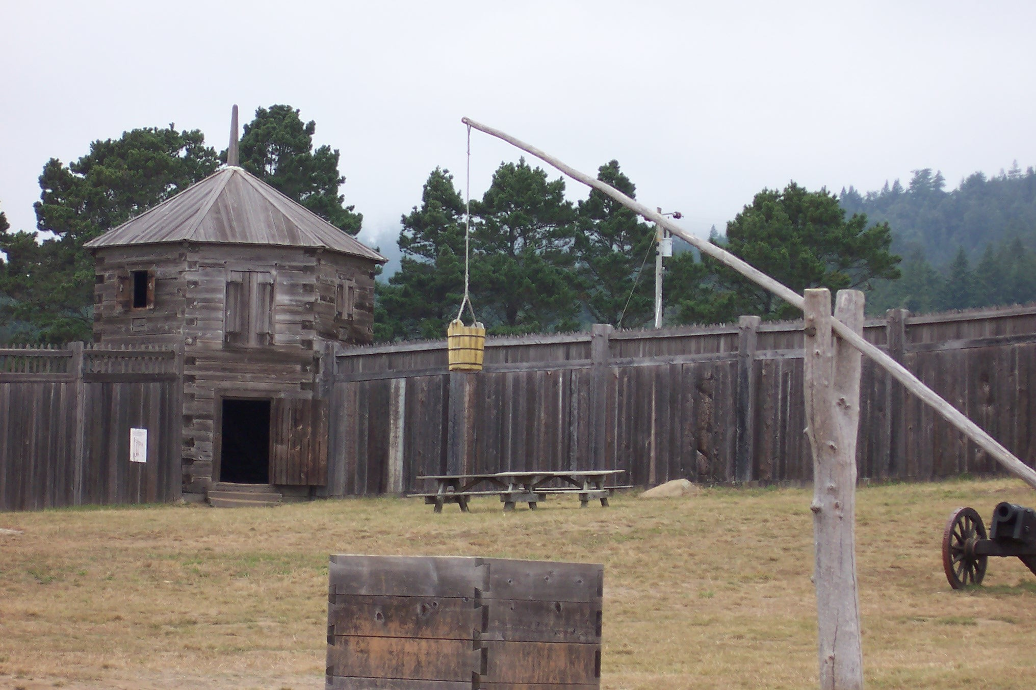 Inside Fort Ross. Northern California, USA. Fort Ross is the US National Historic Landmark of history of Russian colonization of America.